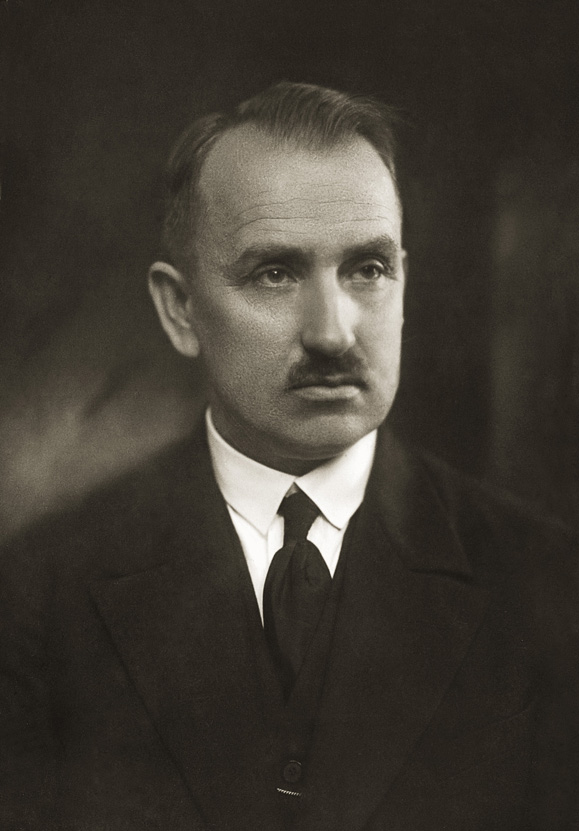 Pranas Dovydaitis. One of the signatories of Lithuanian independence act.